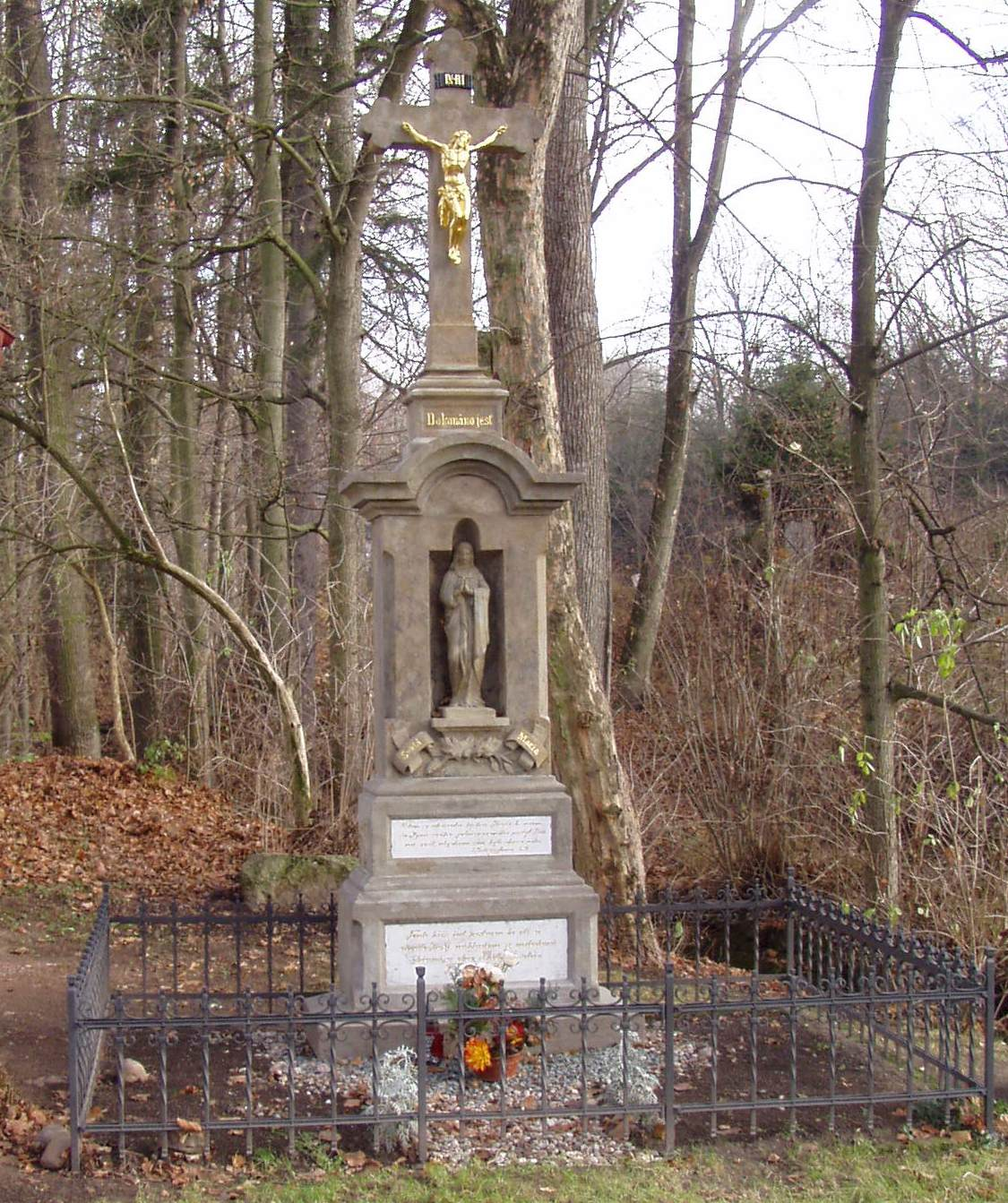 Řešetova Lhota - Cross